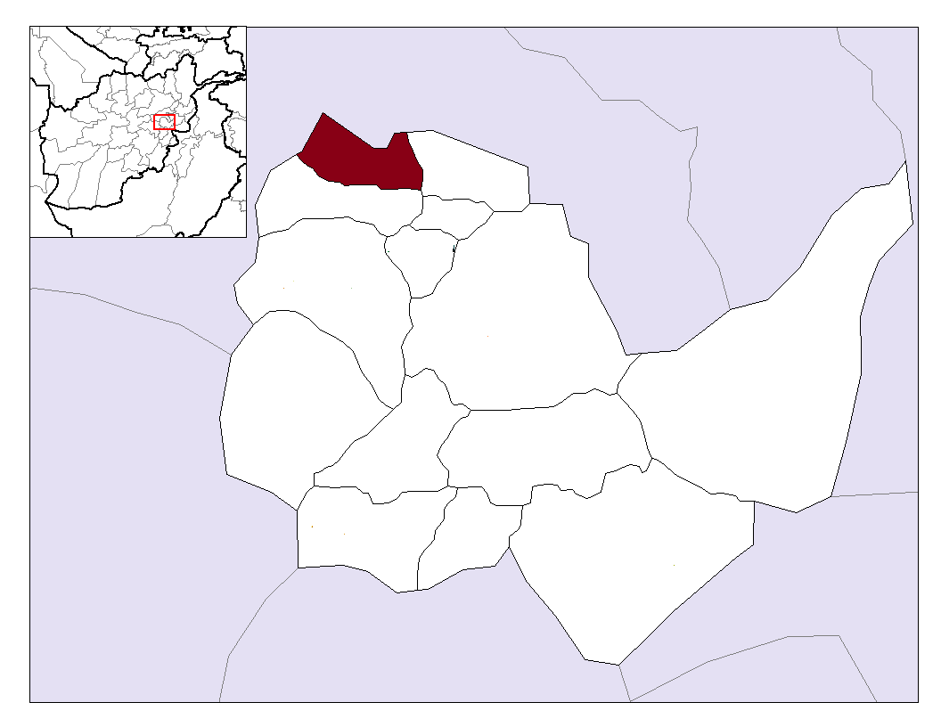 District locator in Kabul Province